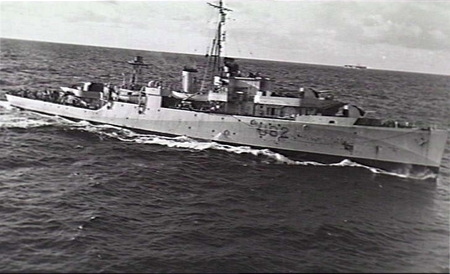 Photograph of British sloop HMS Magpie in the Atlantic.